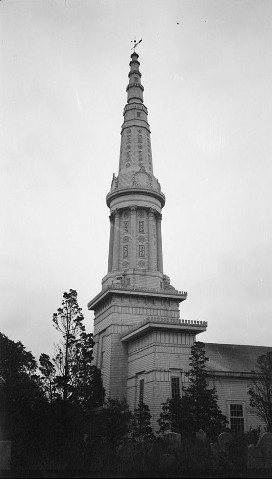 First Presbyterian Church, Sag Harbor, Suffolk County, New York. Shows church with steeple prior to 1938 hurricane that destroyed steeple. HABS image, then cropped.